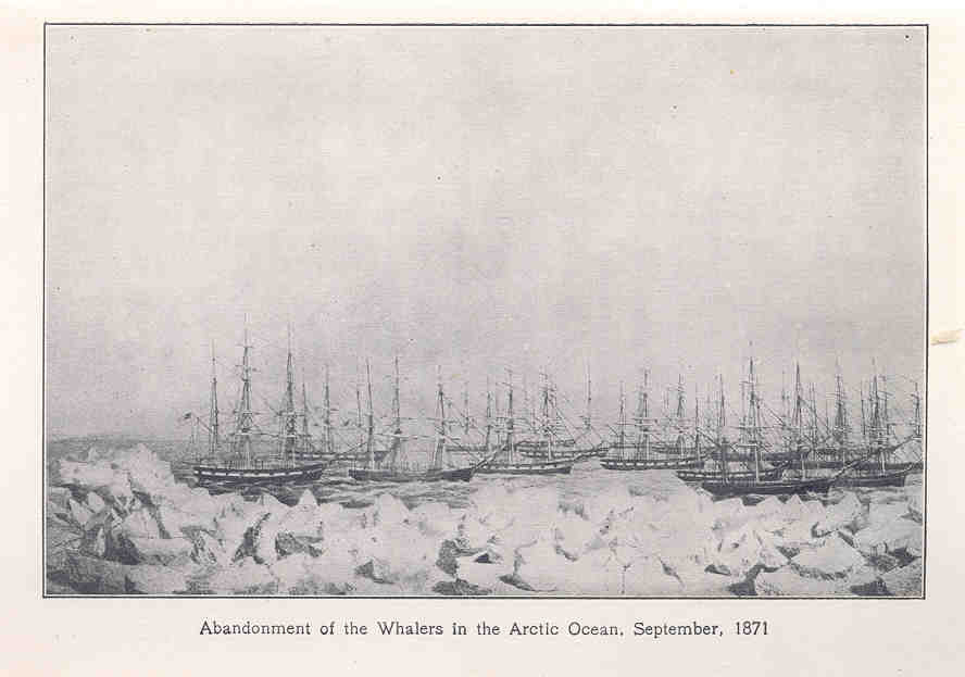 Abandonment of the Whalers in the Arctic Ocean, September, 1871 Subject: Whaling ships, Shipwrecks Tag: Vessels, Polar